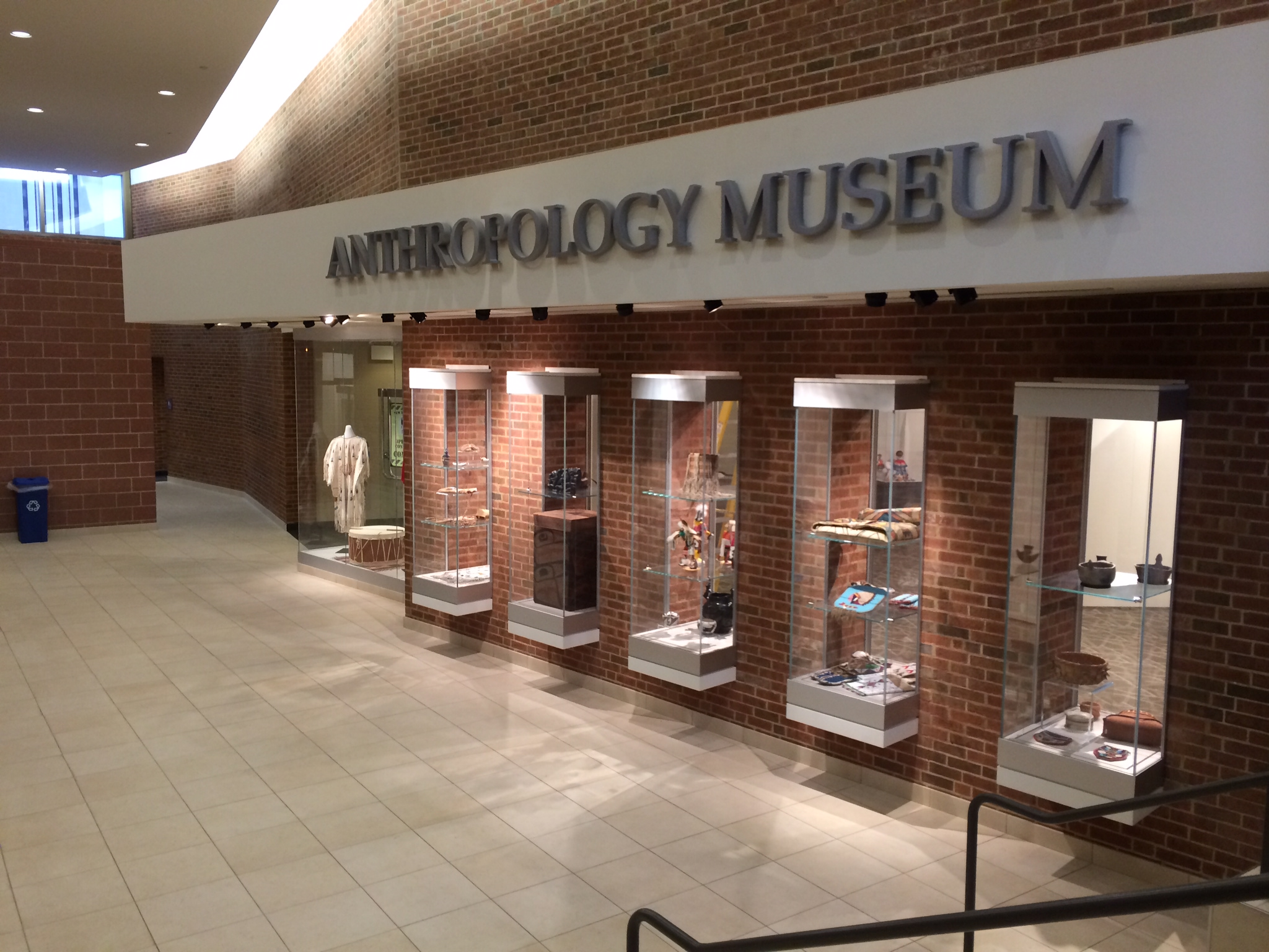 NIU Anthropology Museum in Cole Hall, November 2013